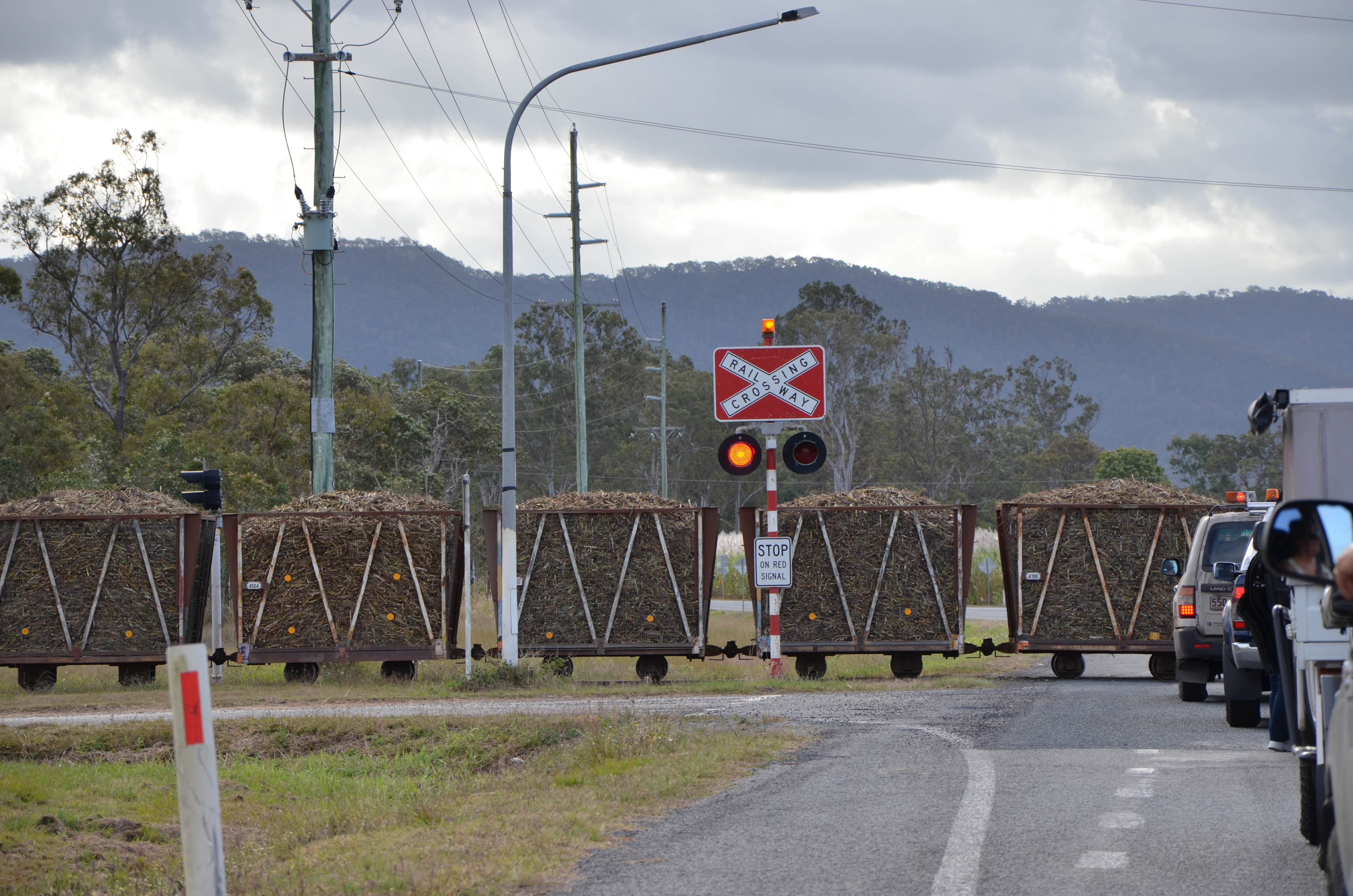 Cane Train in Central Queensland, Australia.